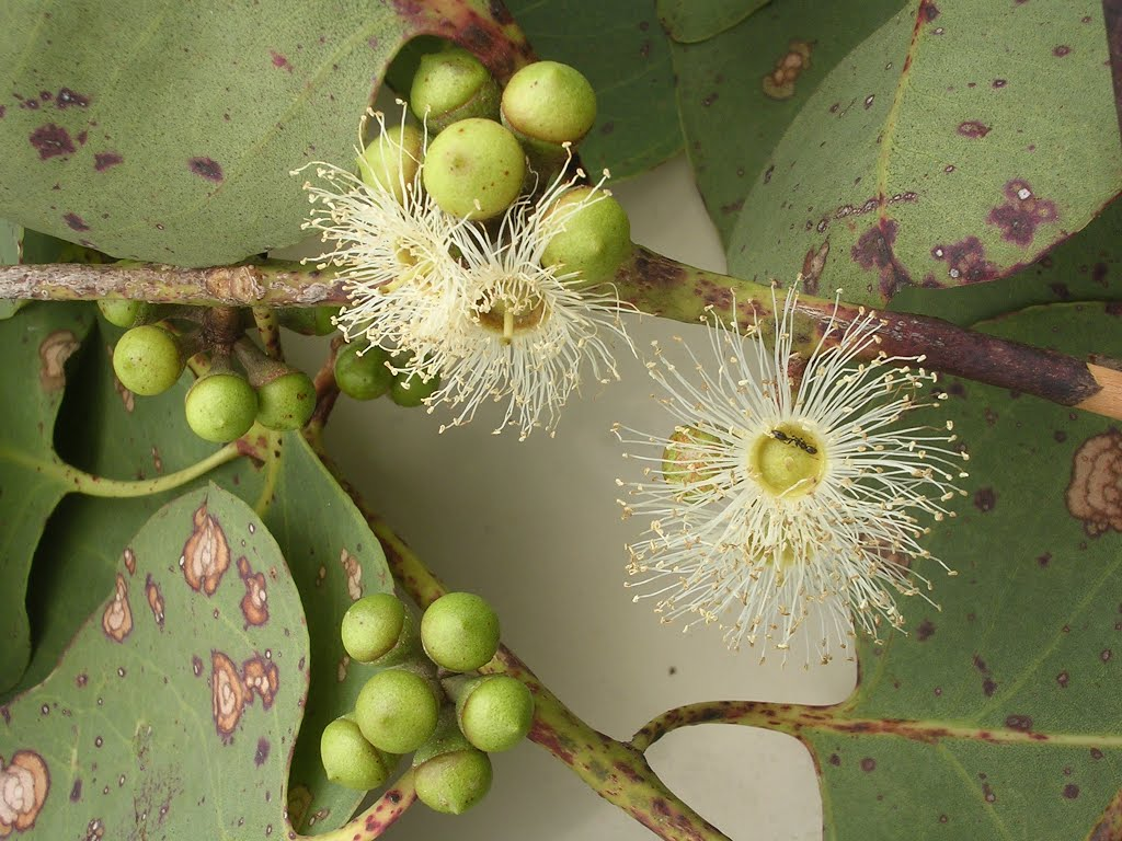 Montane woodland at c. 1,000 m, 5 km west of Seloi village - flowering Eucalyptus alba